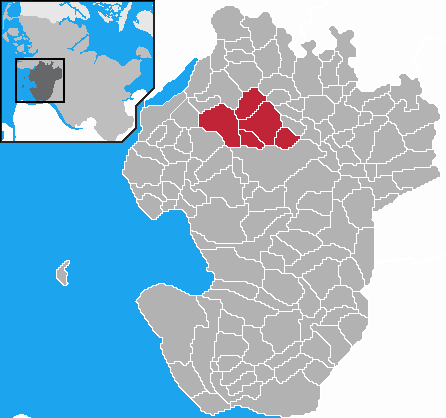 This map shows the area of the Amt Weddingstedt in the district Dithmarschen, Schleswig-Holstein, Germany.